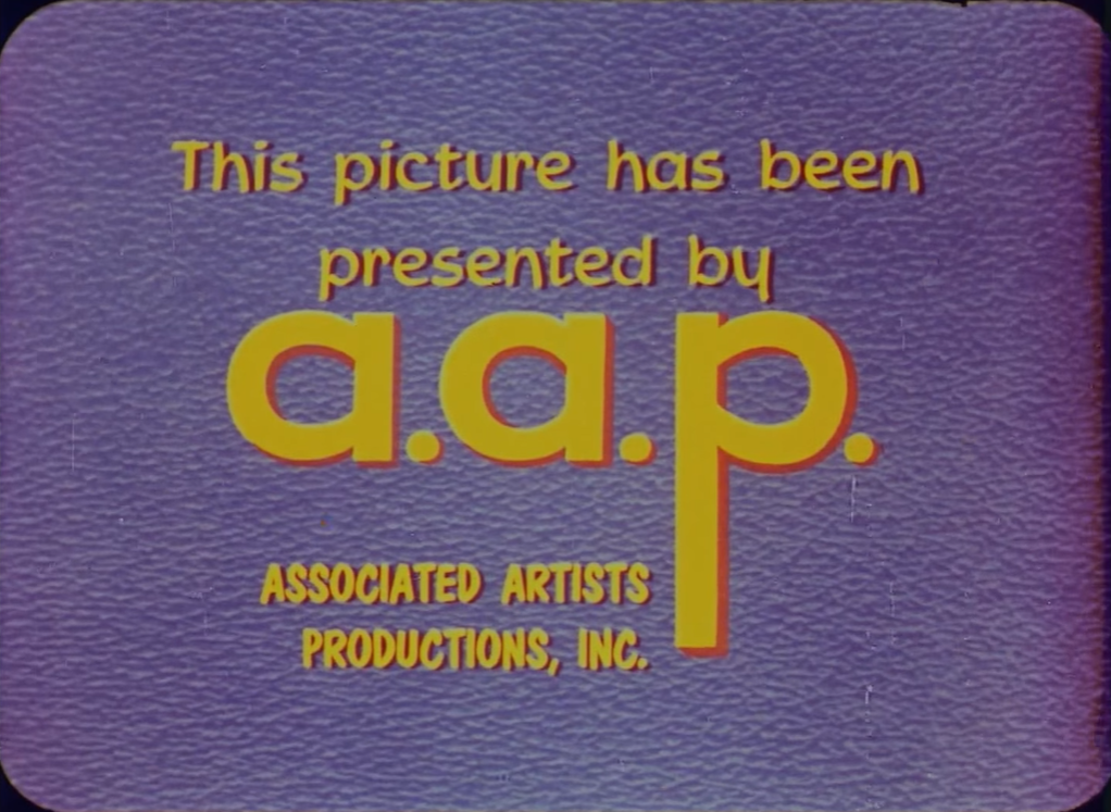 Associated Artists Productions logo.